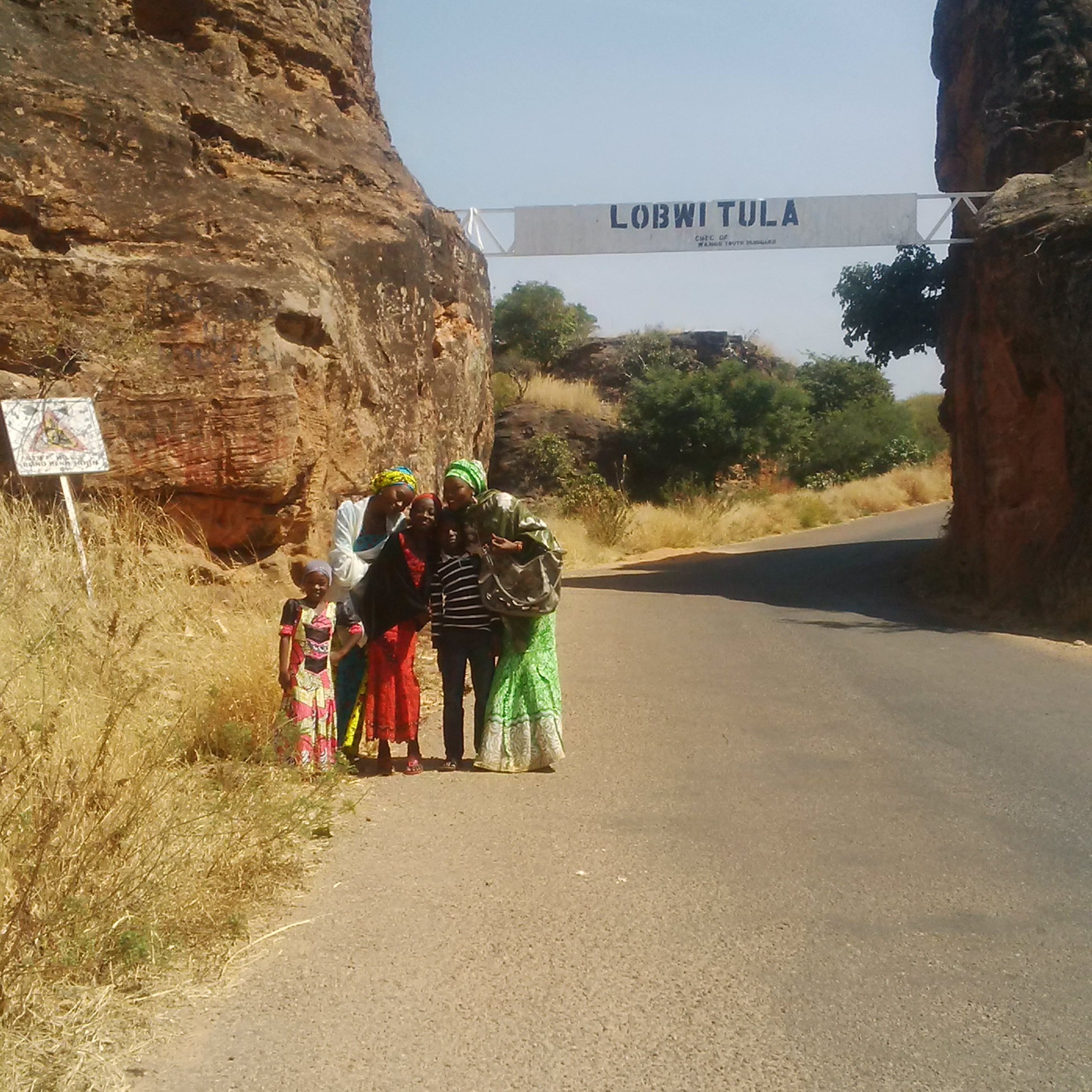 Tula in Gombe State This is an image from Nigeria